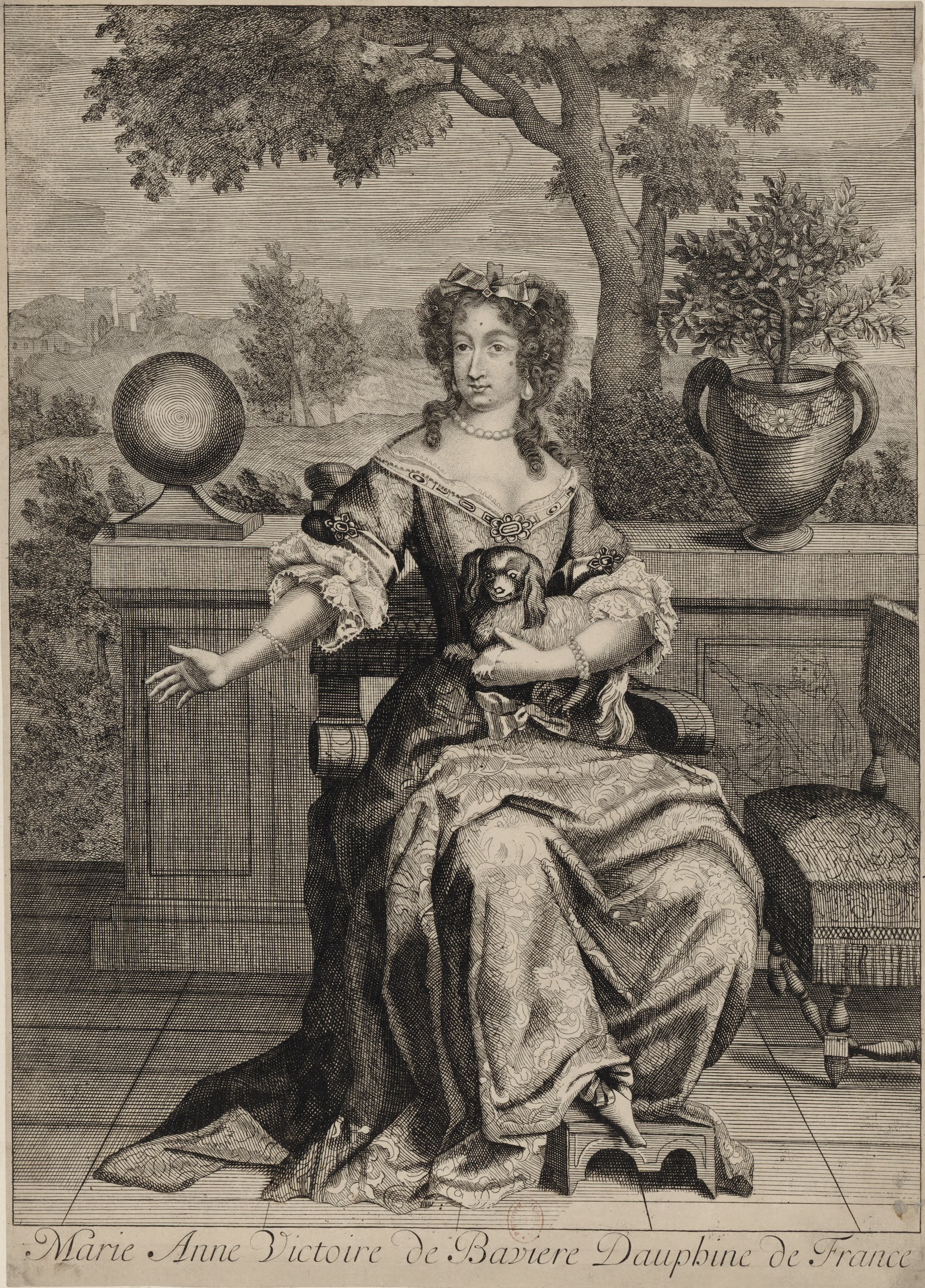 Drawing of Marie Anne Victoire de Bavière, daughter in law of Louis XIV and Dauphine of France